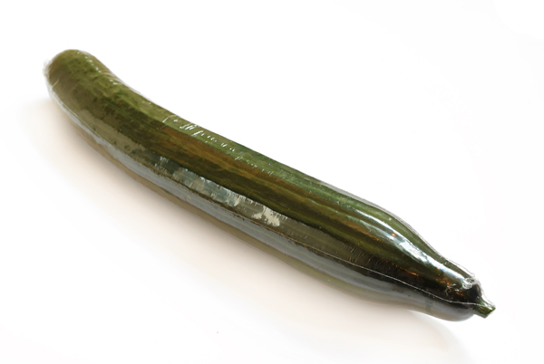 sealed cucumber